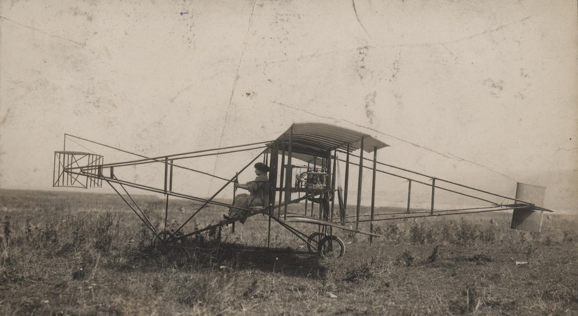 "Miss Clark and her Exhibition Plane, 1911." Julia Clark was the third woman to receive a pilot's license from the Aero Club of America. She was the first female pilot to die in an air crash in the United States in 1912. From the Bernard Smith Collection (COLL/1691), Marine Corps Archives & Special Collections OFFICIAL USMC PHOTOGRAPH